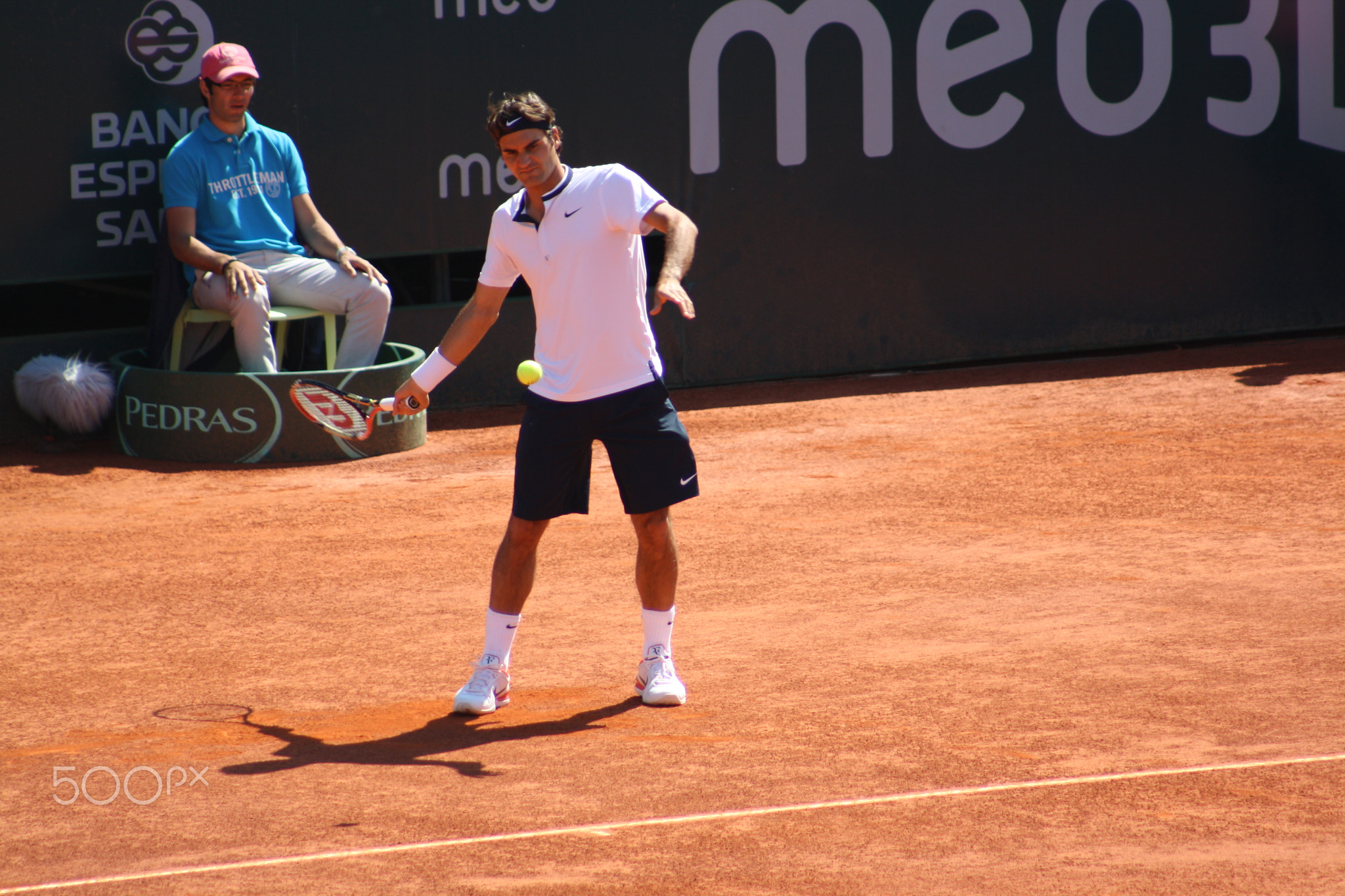 500px provided description: Estoril Open 2010 - Roger Federer vs Bjorn Phau [#Portugal ,#Clay ,#Sport ,#Tennis ,#Roger Federer ,#Tournament ,#Forehand]